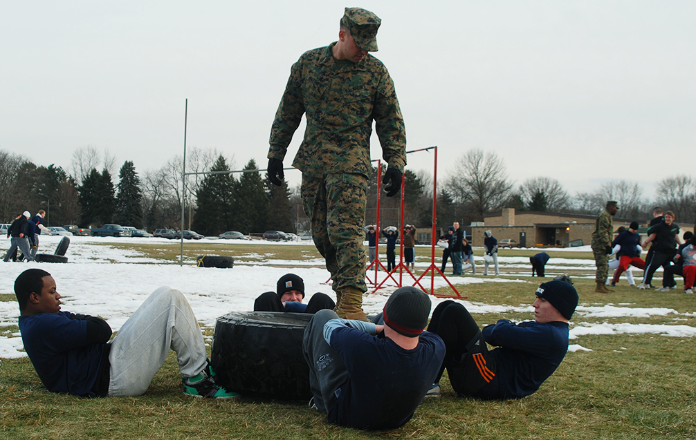 Gunnery Sgt. Jeremy Matthews supervises his pool of enlistees while they do exercises during a CrossFit training circuit in Canton, Ohio, Jan. 21. CrossFit gives Matthews a genuine way to train his pool of enlistees and help them develop the stamina needed to succeed at Marine Corps Recruit Depot. Matthews is the staff noncommissioned officer in charge of Recruiting Sub-Station Canton, Recruiting Station Cleveland, Ohio.